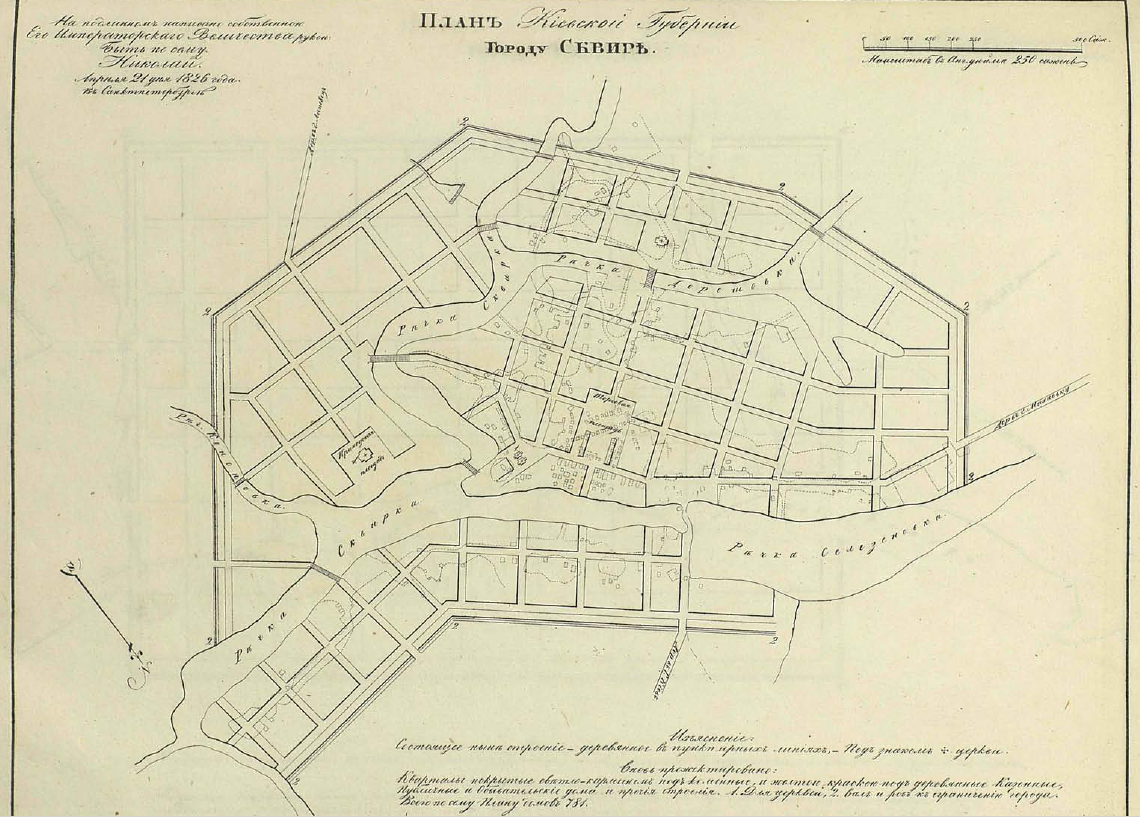 Plan of Skvyra city. 1826